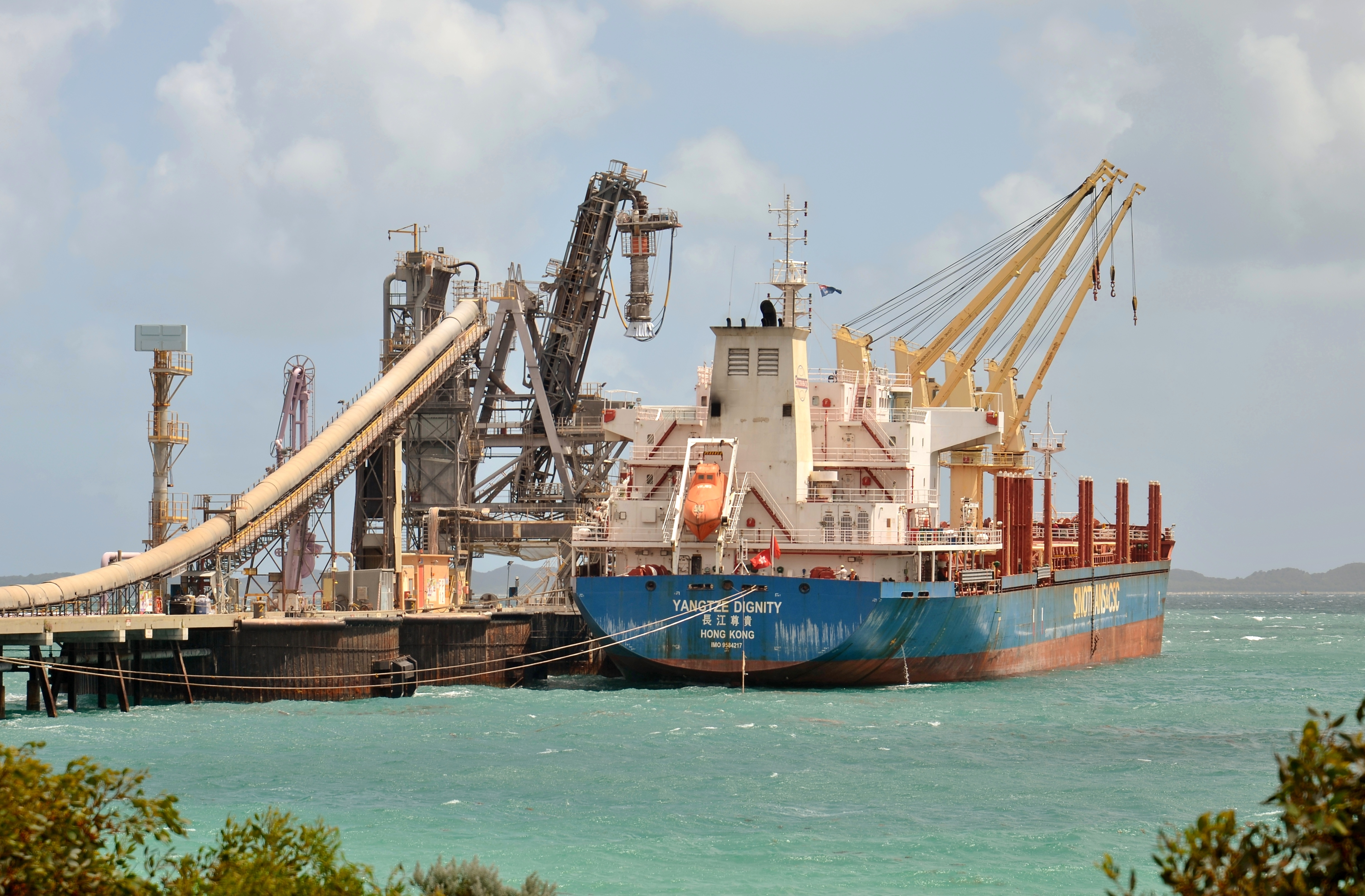 Geared bulk carrier Yangtze Dignity berthed at No. 1 Alcoa berth in the outer harbour of Fremantle Harbour, Western Australia